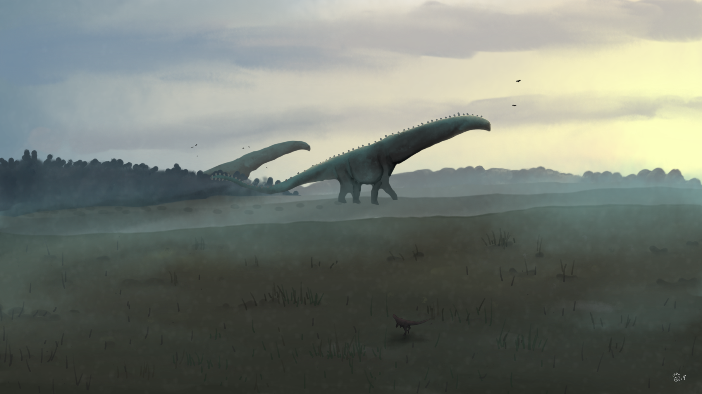 A reconstruction of two Patagotitan at dawn.